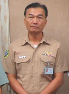 Vice Admiral Lee Chung-hsiao, Chief of Staff of the Navy Command Headquarters.